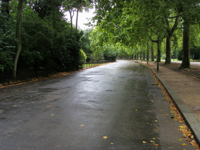 Carriage Drive South Carriage Drive South near the Alexandra Ave entrance of Battersea Park